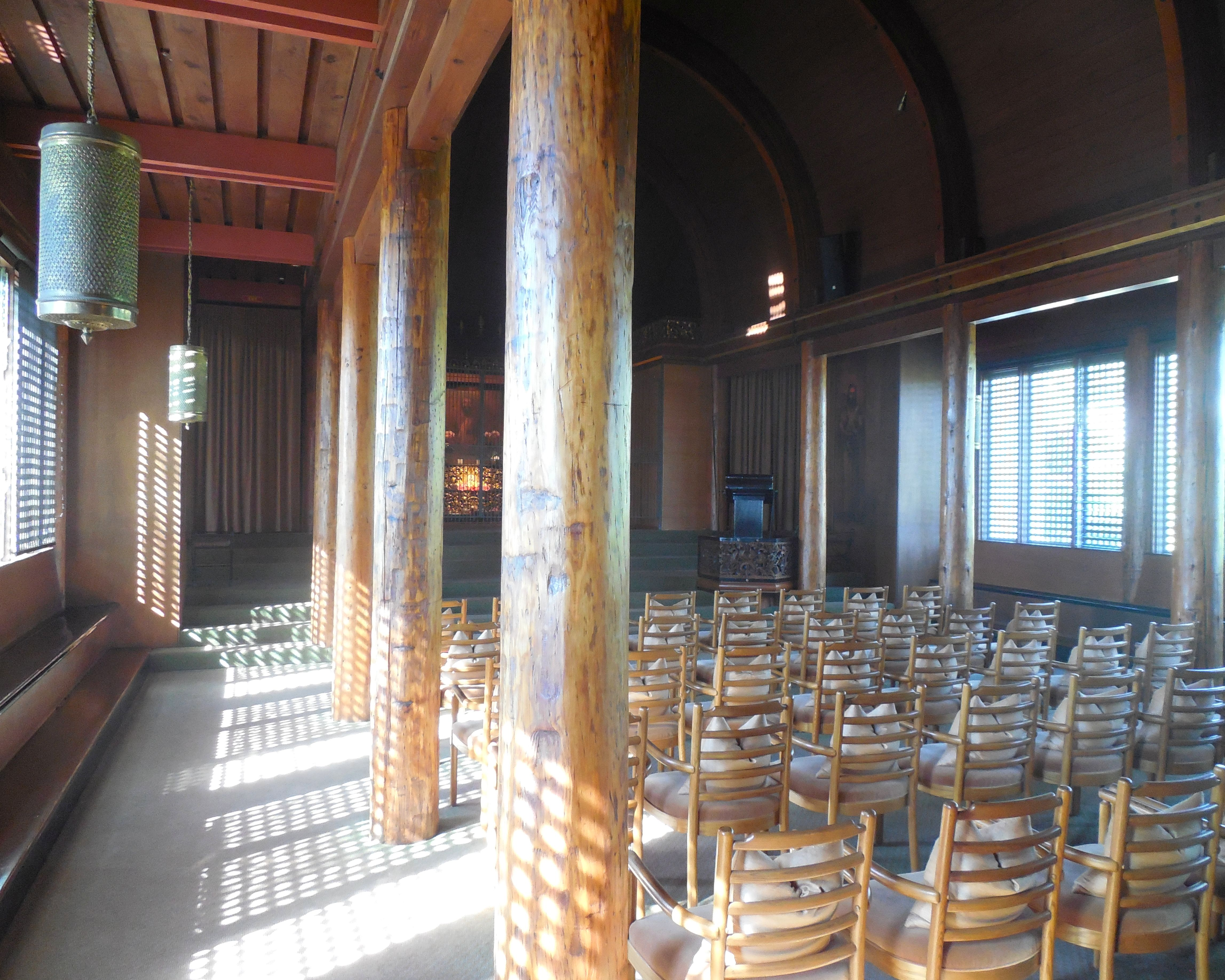 Interior of the Santa Barbara Vedanta Temple, Sep 2017